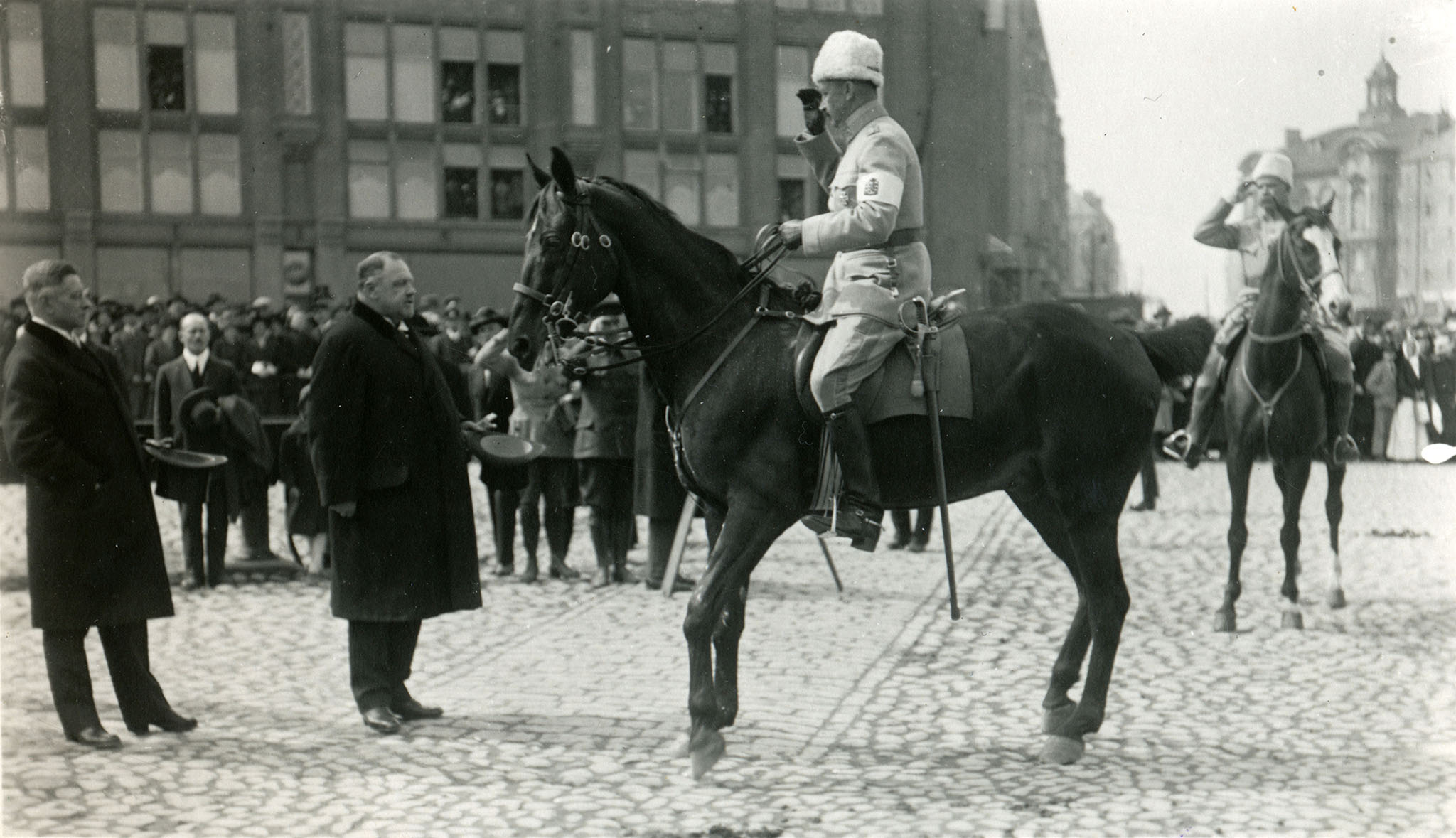 Helsinki mayor von Haartman welcomes general Mannerheim 16.5.1918. On the right major-general Gösta Theslöf.